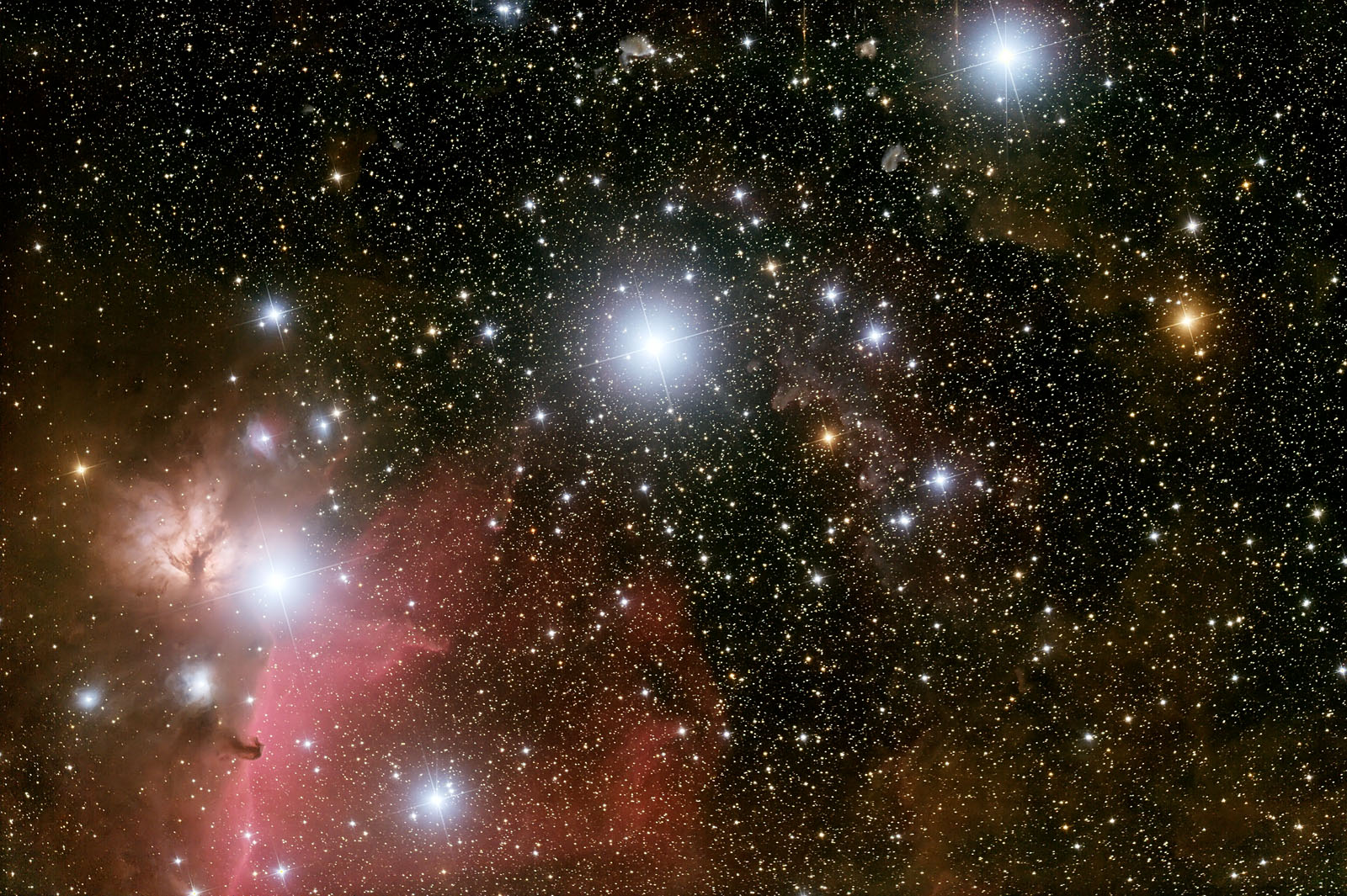 Alnitak, Alnilam, and Mintaka, are the bright bluish stars from east to west (left to right) along the diagonal in this gorgeous cosmic vista. Otherwise known as the Belt of Orion, these three blue supergiant stars are hotter and much more massive than the Sun. They lie about 1,500 light-years away. Astronomy Picture of the Day on 10 February 2009